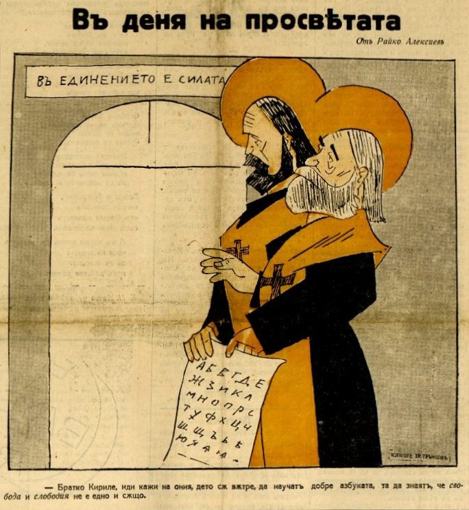 Cartoons of Raiko Alexiev, published in the newspaper "Sturec", May 1938 - Brother Cyril, go tell those who are inside to learn the alphabet so they know freedom (свобода) and eradication (слободия) are not the same.